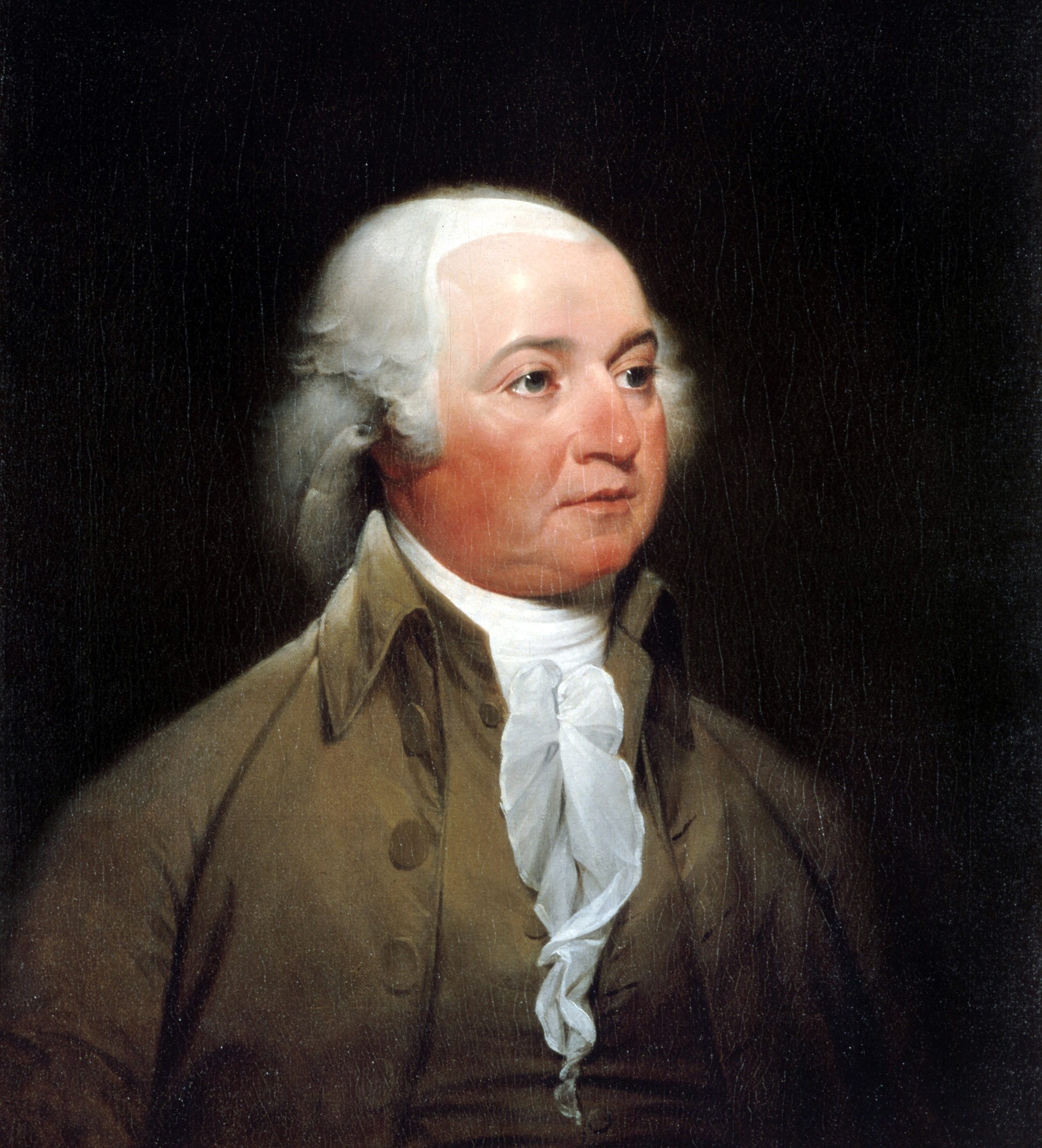 Portrait of John Adams